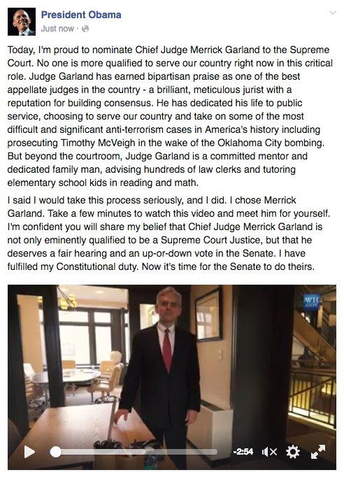 President Obama facebook post on Merrick Garland nomination to Supreme Court, reposted to official twitter account of The White House